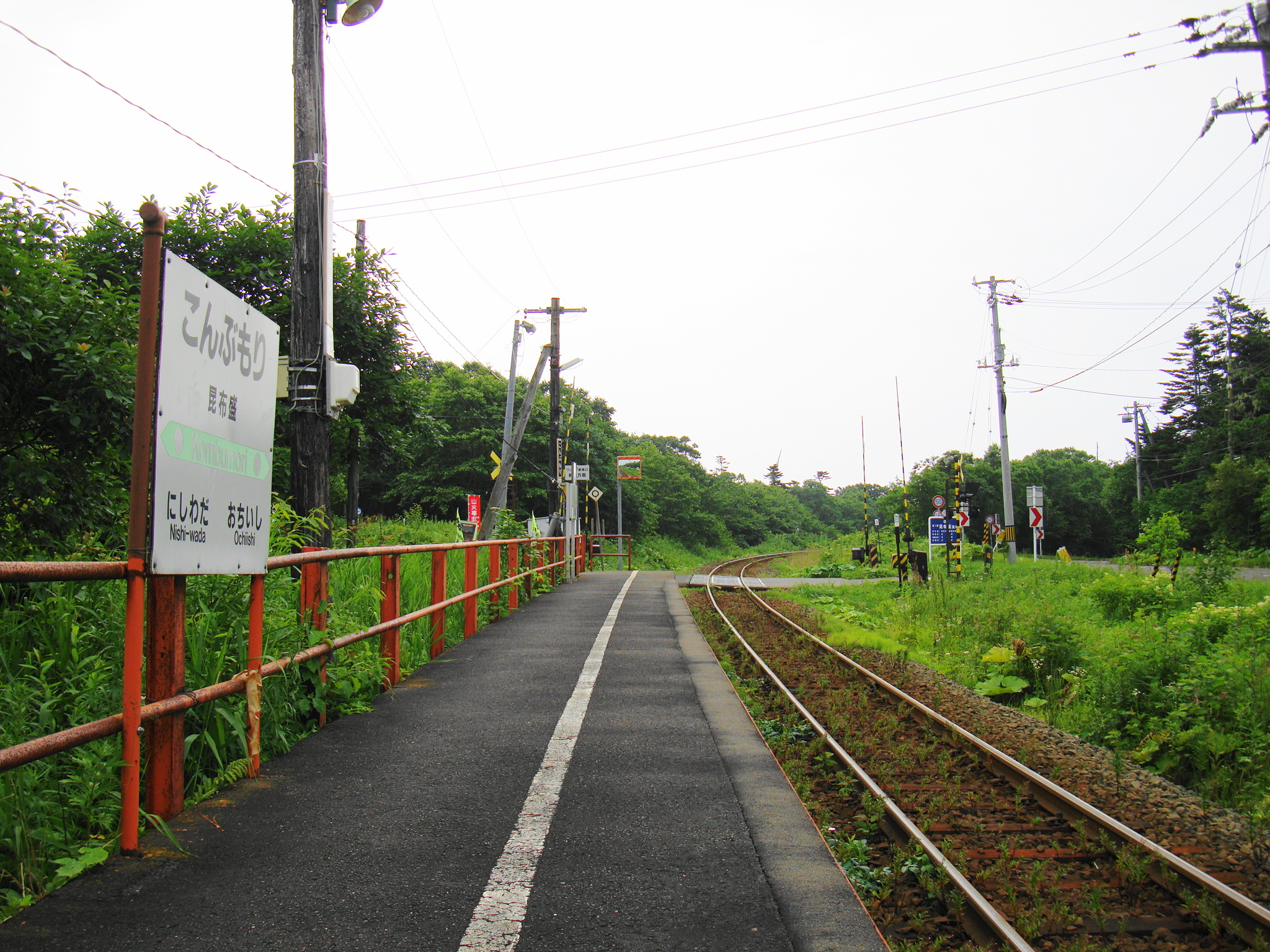 Konbumori Station